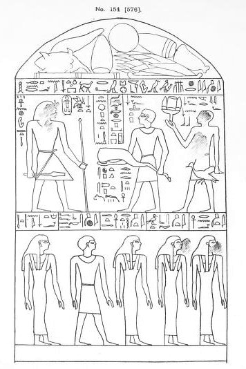 Drawing of a limestone stele of the official Senitef son of Rehutankh, depicting servants bringing offerings to a royal statue of pharaoh Nubkaure (i.e. Amenemhat II; on the left, facing right). Reign of Amenemhat II or shortly later, 12th Dynasty, Middle Kingdom. British Museum EA576.